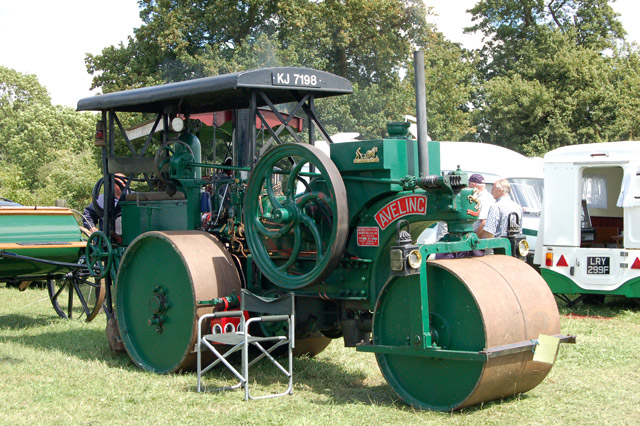 Birdingbury Country Festival (18)Aveling and Porter sn 12876 Road Roller type DC, built in 1932, fitted with a single cylinder Blackstone engine